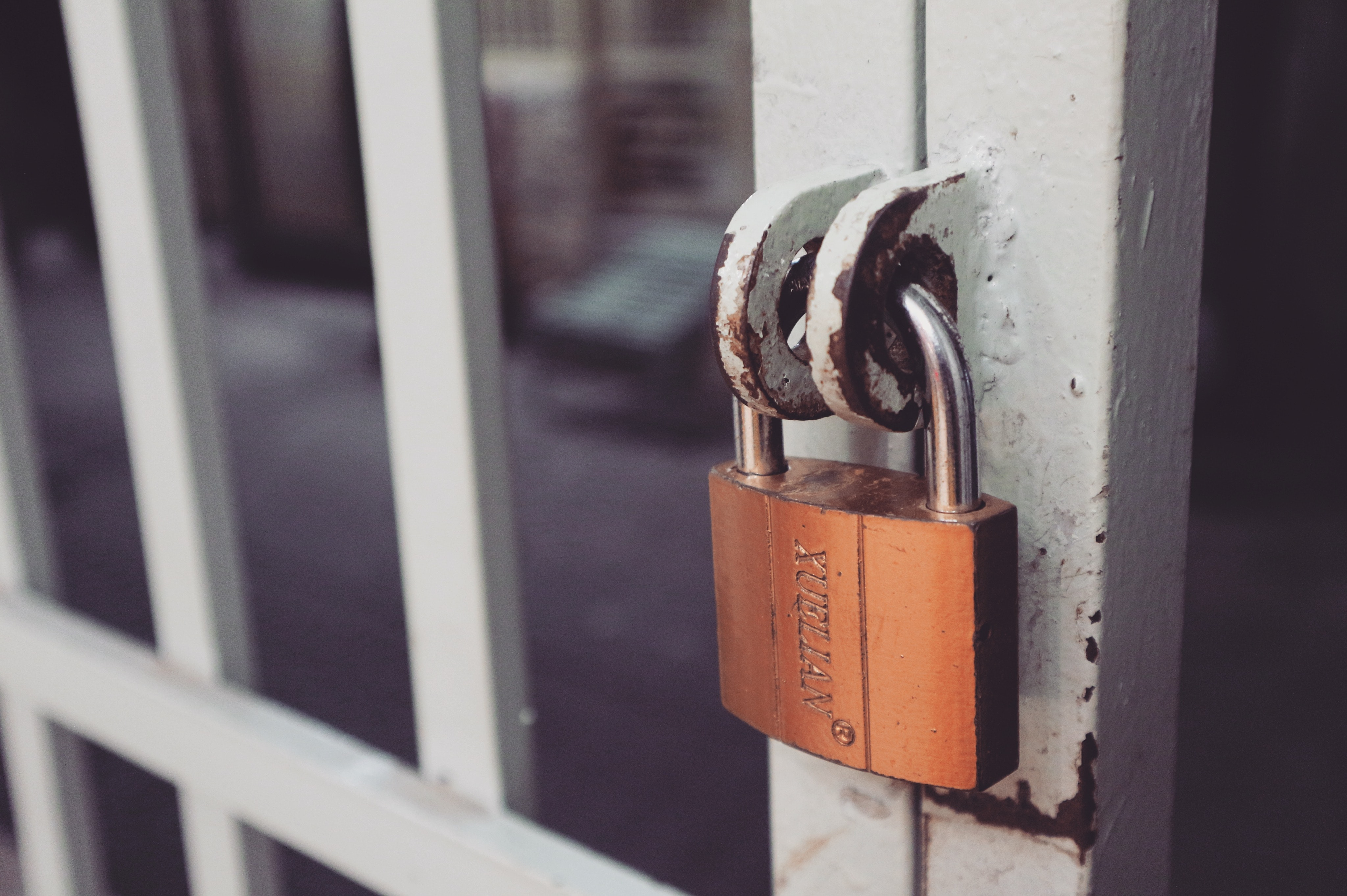 Gatekeeping as a media practice is the governing of news content being released to the public.